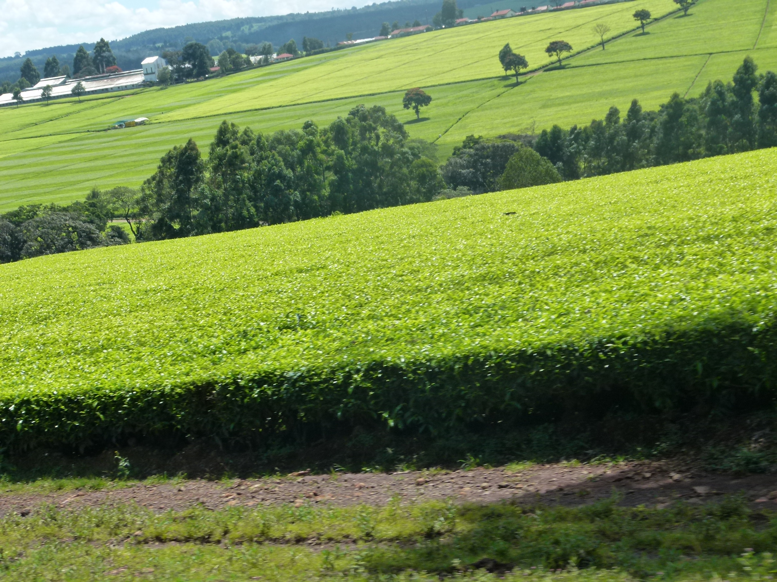 Kericho’s landscape and economy is dominated by tea farming and most of the large-scale tea plantations in the country are found in this county